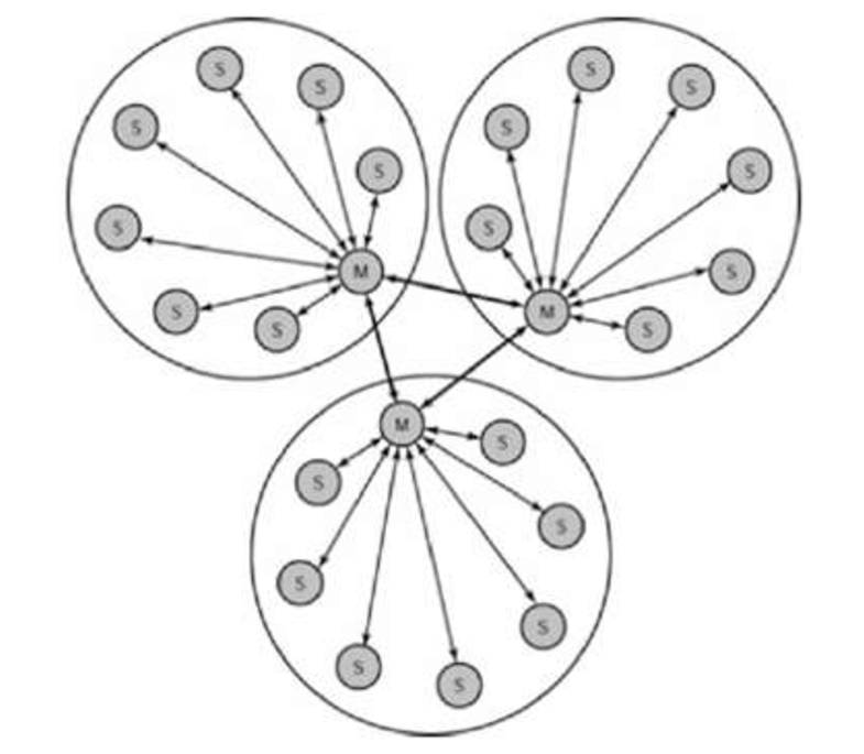 topology Srpski (latinica): Topologija scatterneta